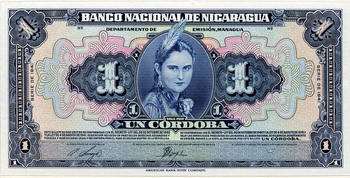 Nicaragua 1 Cordoba banknote of 1941